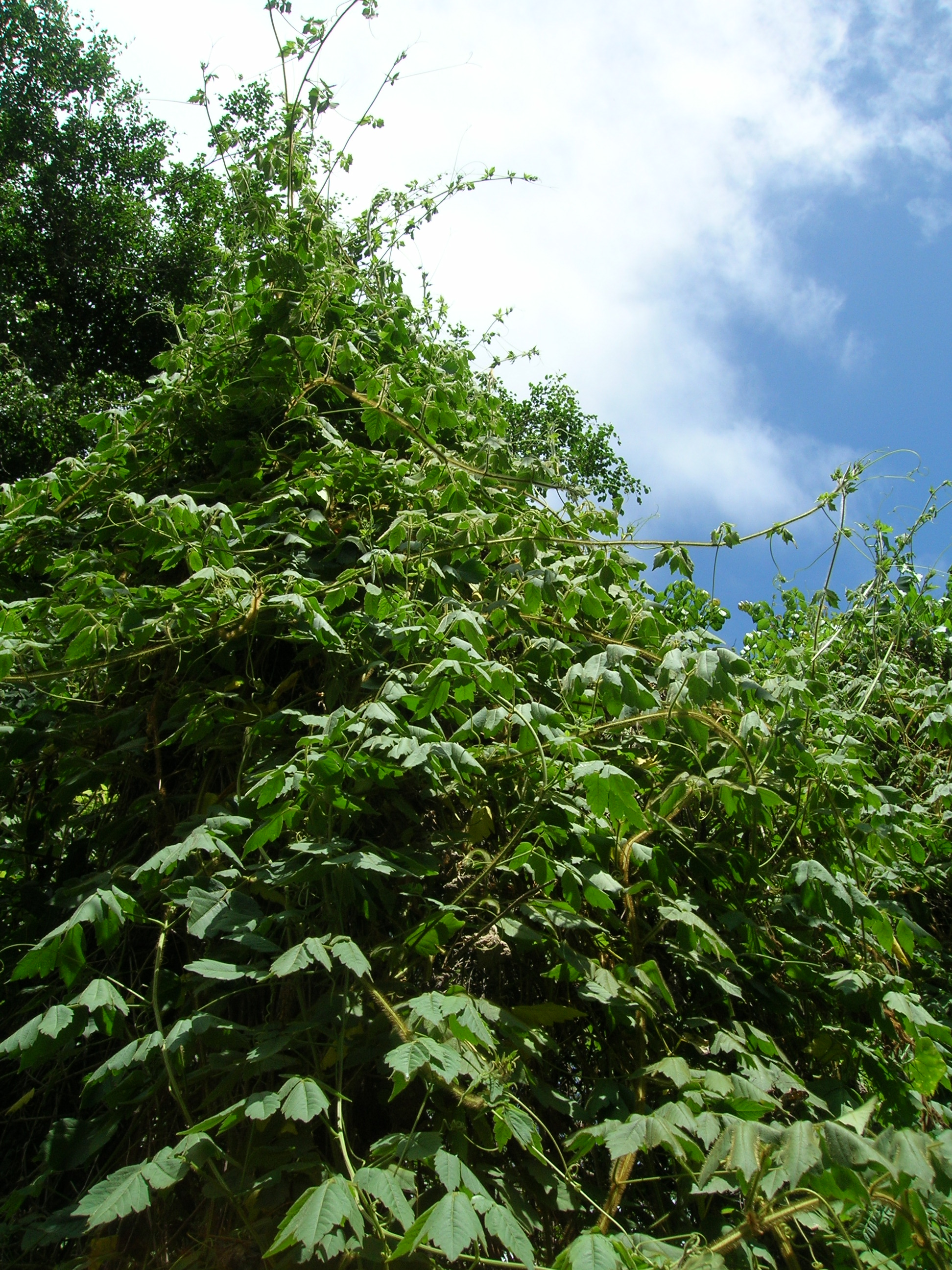 Cardiospermum sp. (habit climbing in trees). Location: Oahu, Waimanalo